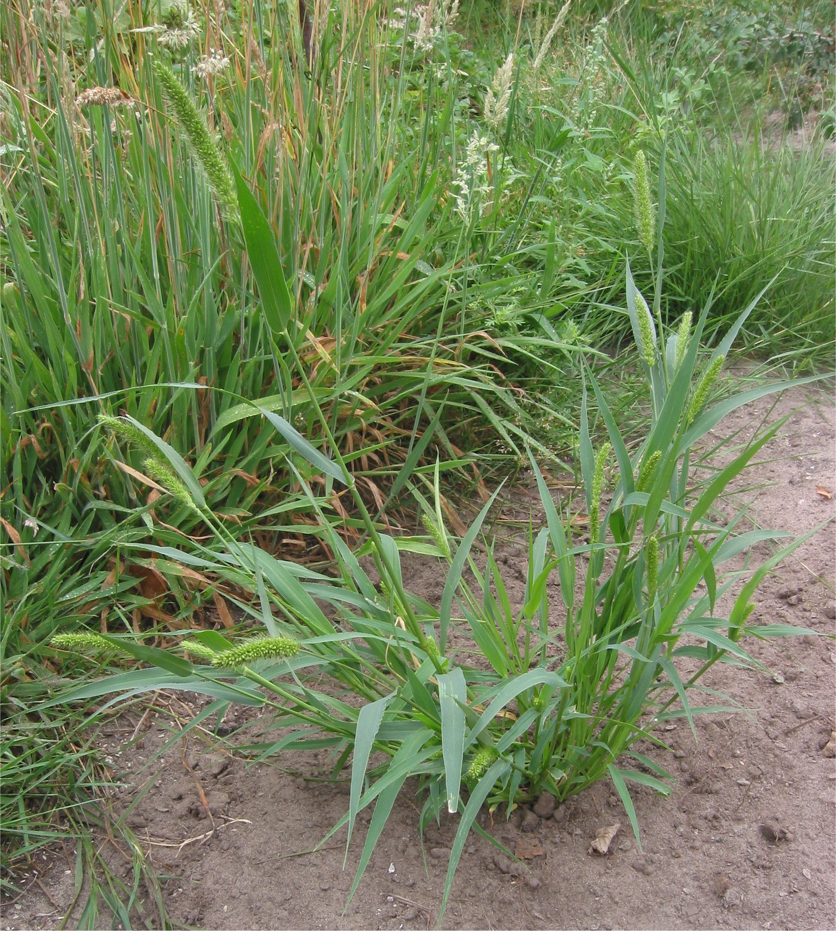 Setaria viridis plant